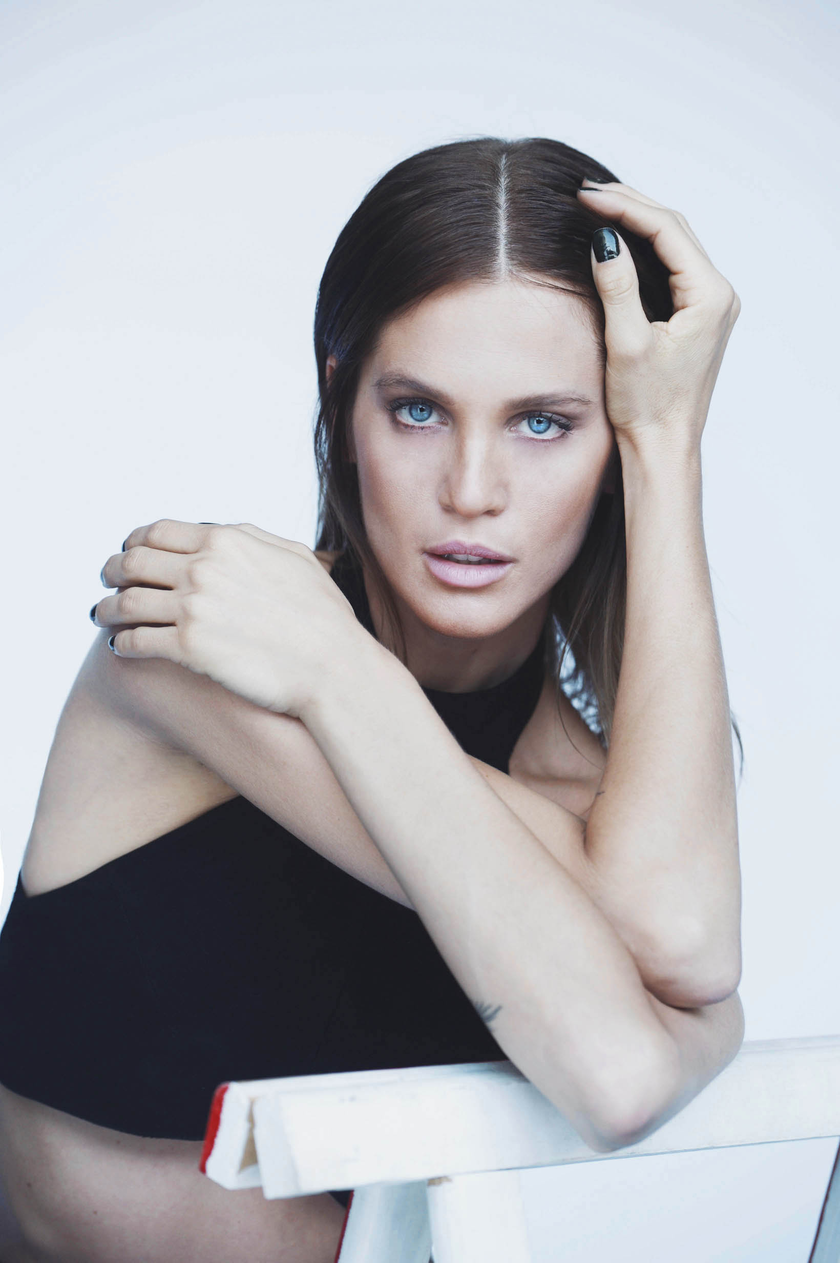 Liz 7